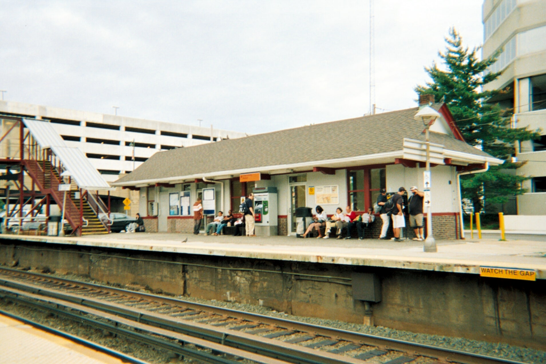 Enclosed shelter on the eastbound platform of Mineola (LIRR station) in Mineola, New York. This was built on the site of the original Mineola station, which was moved to the westbound platform on the north side in the 1920's. No tunnels, or ticket windows, or anything like that, just an extra waiting area, but enclosed. A staircase to the pedestrian bridge and a parking garage can be seen in the background.